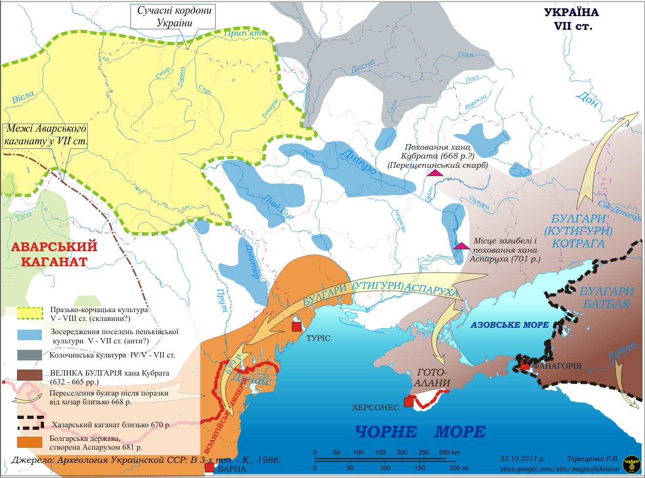 Earth's present-day Ukraine in the 7th century. Bulgars, Khazars